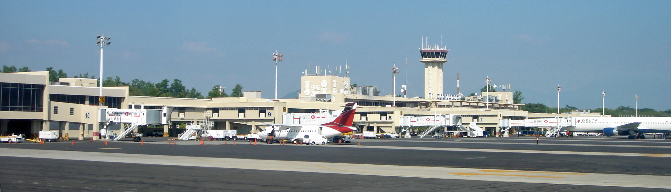 Panoramic view of terminal and jetbridges of the Cuscatlan International Airport (SAL), aka Comalapa Airport, El Salvador.